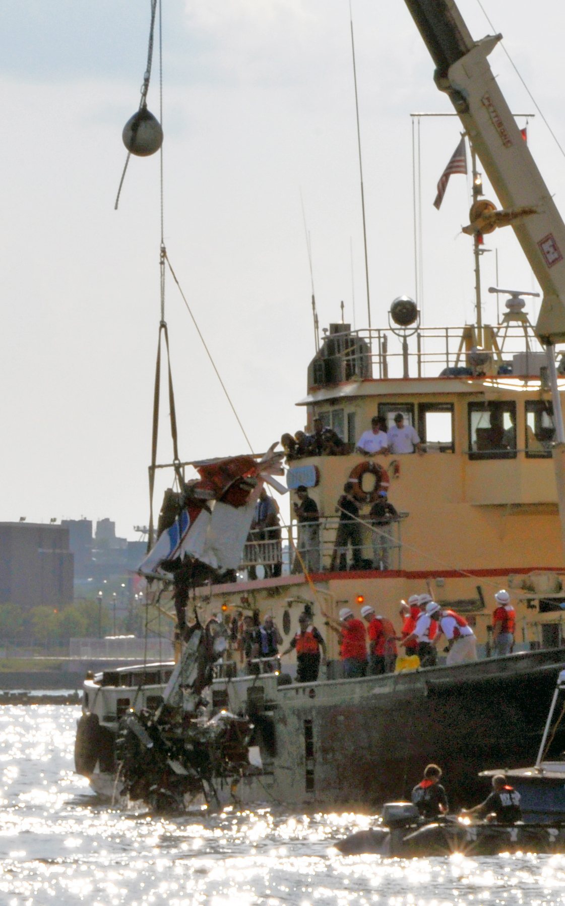 The DCV Hayward, one of the U.S. Army Corps of Engineers New York District's three drift collection vessels, lifts the wreckage of a small plane out of the Hudson River in the afternoon of August 11, 2009. The plane collided with a helicopter and crashed into the Hudson River on August 8, 2009.